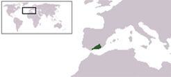 Location of the Kingdom of Grenada in the 14th century